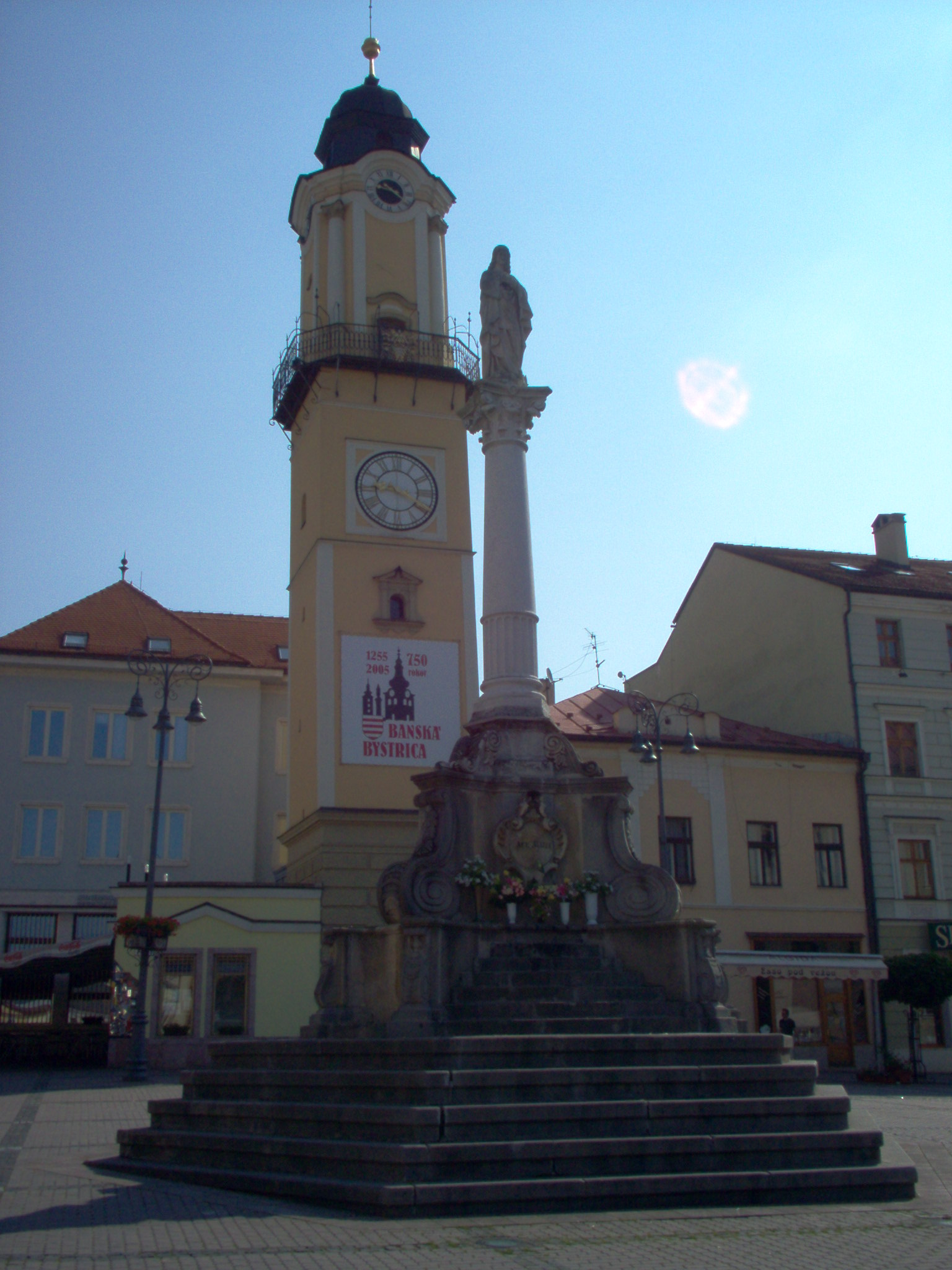 Banska Bystrica - clock tower, Slovak Republic. The poster on the tower shows that the city is celebrating 750th anniversary of its founding